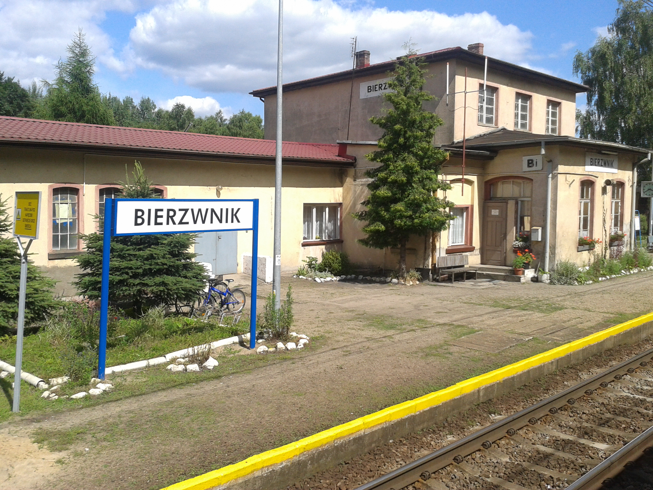 Train station in Bierzwnik, Poland